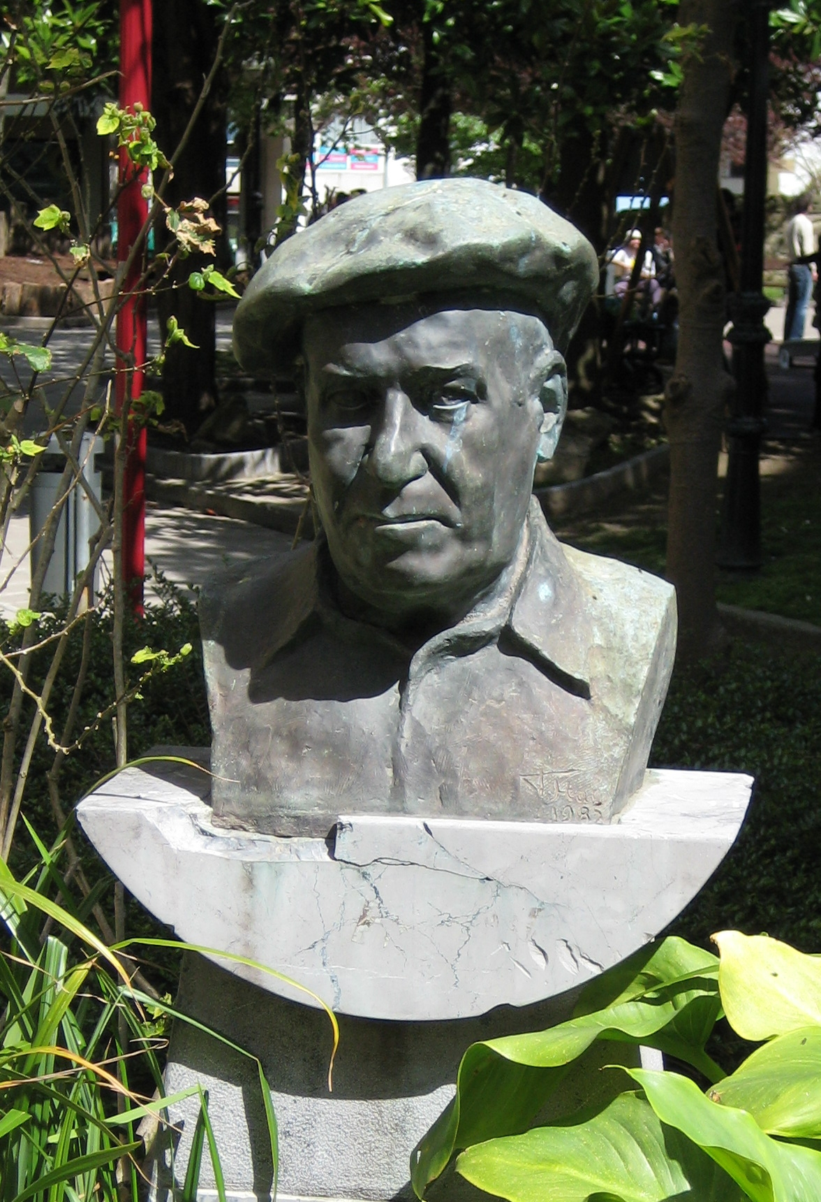 Bust to bertsolari Ignacio Eizmendi Manterola, Basarri, in Zarautz, Guipuzcoa.